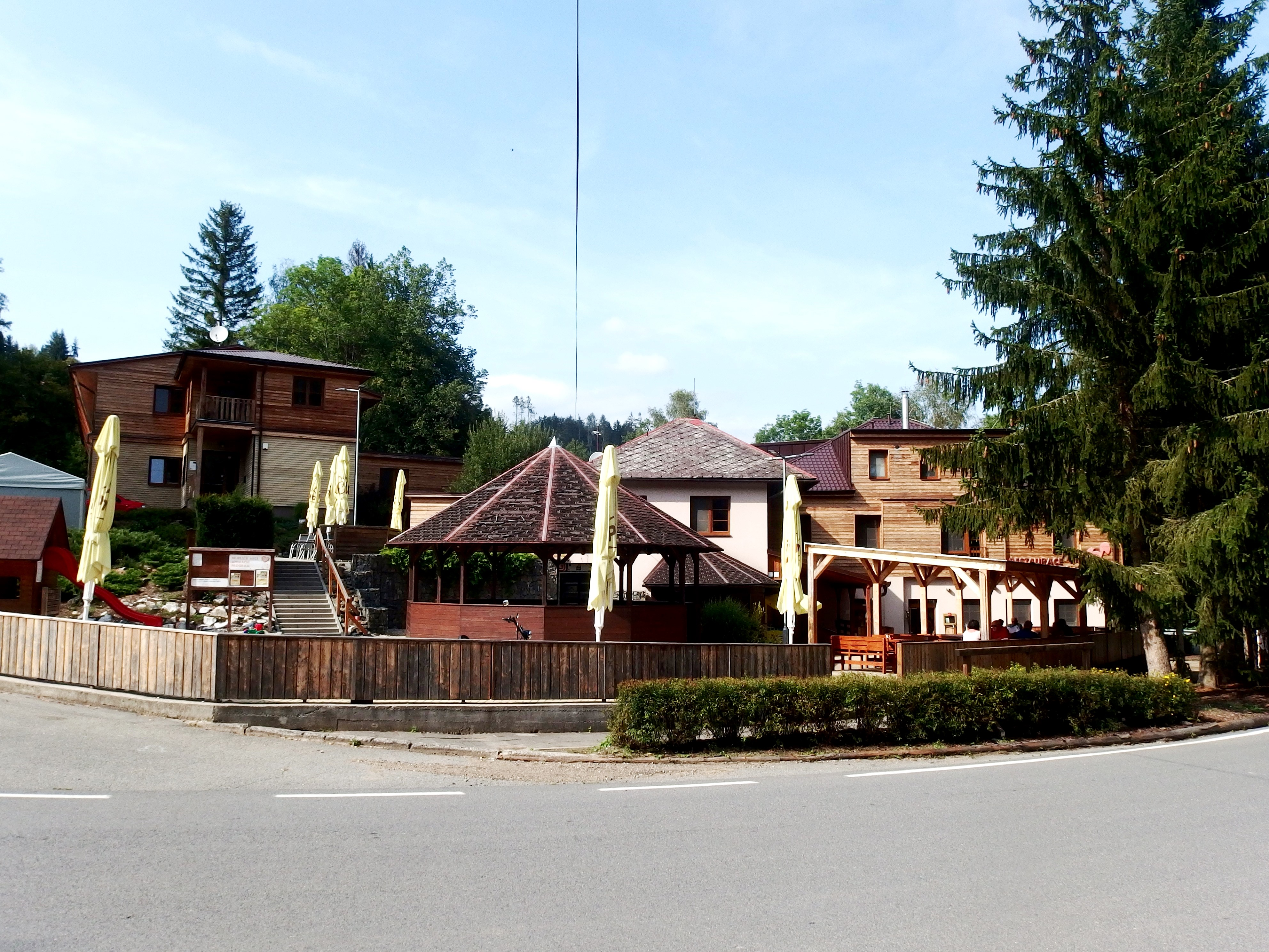 Zábřeh, Šumperk District, Czechia, part Dolní Bušínov.